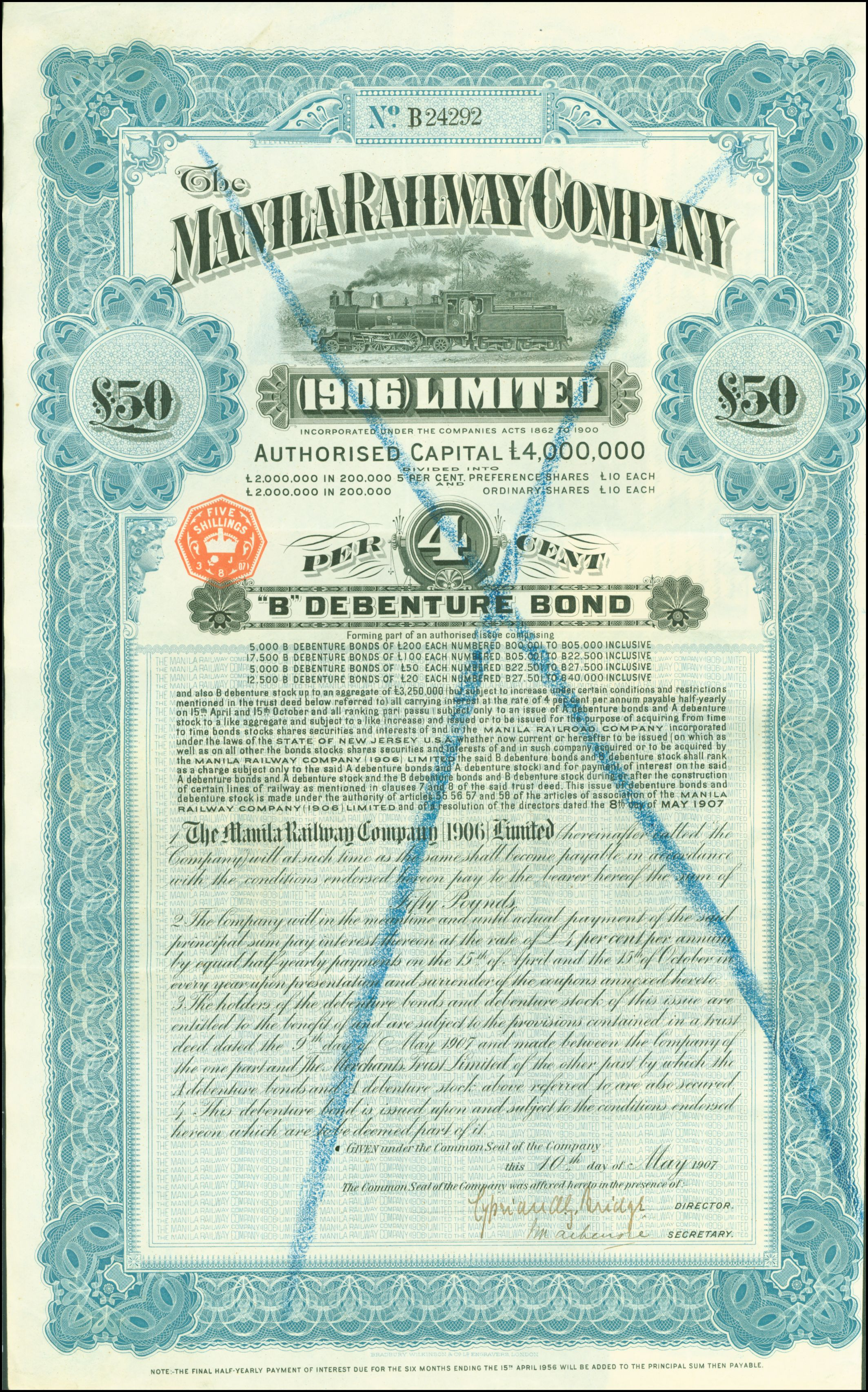 Bond of the Manila Railway Company (1906) Ltd, issued 10. May 1907